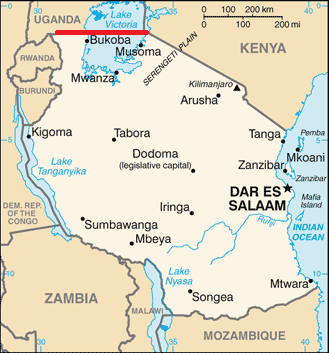 Map of Tanzania, showing the 1st parallel south as part of the border with Uganda and Kenya